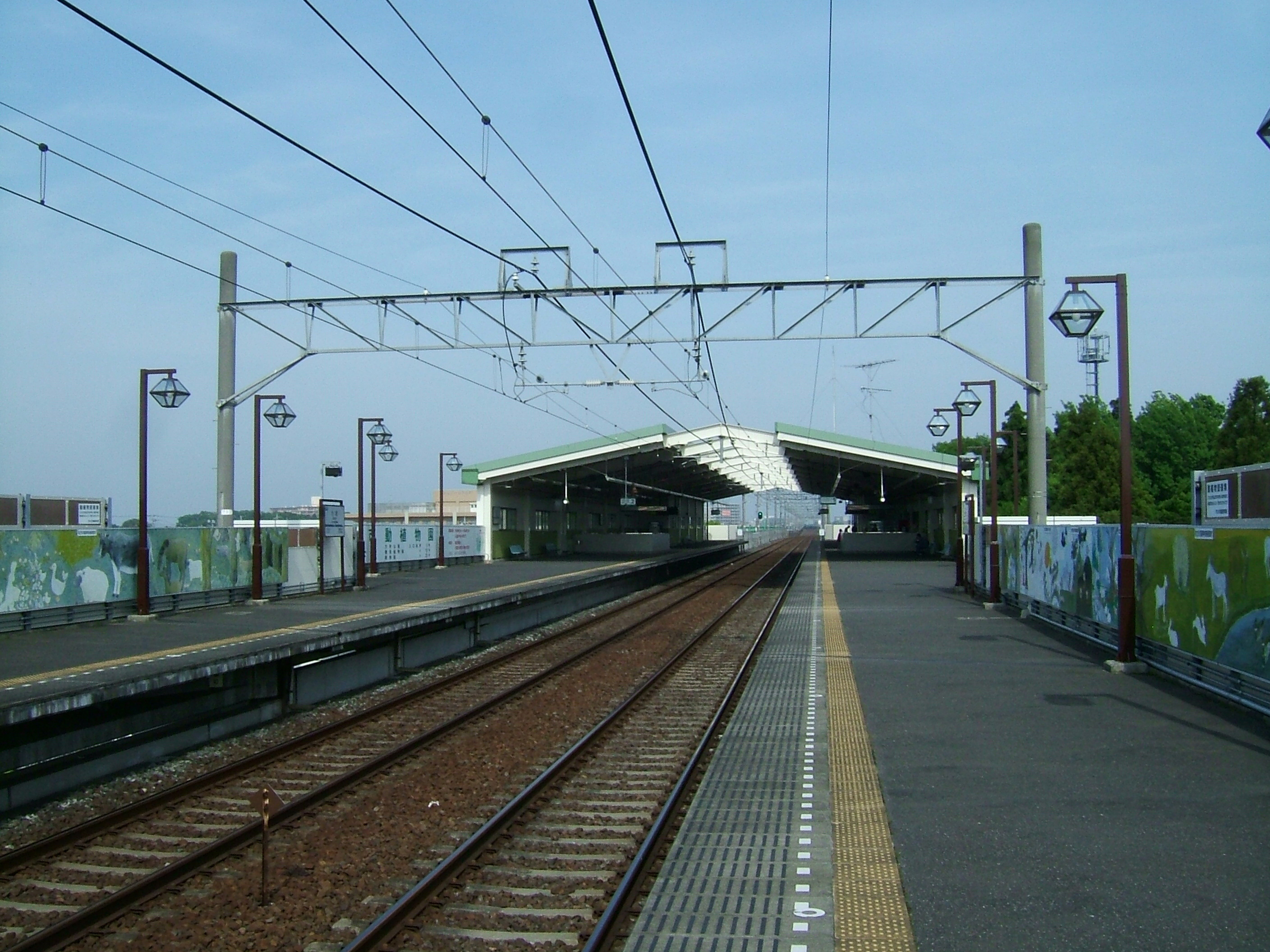 The platforms at Ōmachi Station on the Hokusō Railway in Ichikawa city, Chiba prefecture, Japan